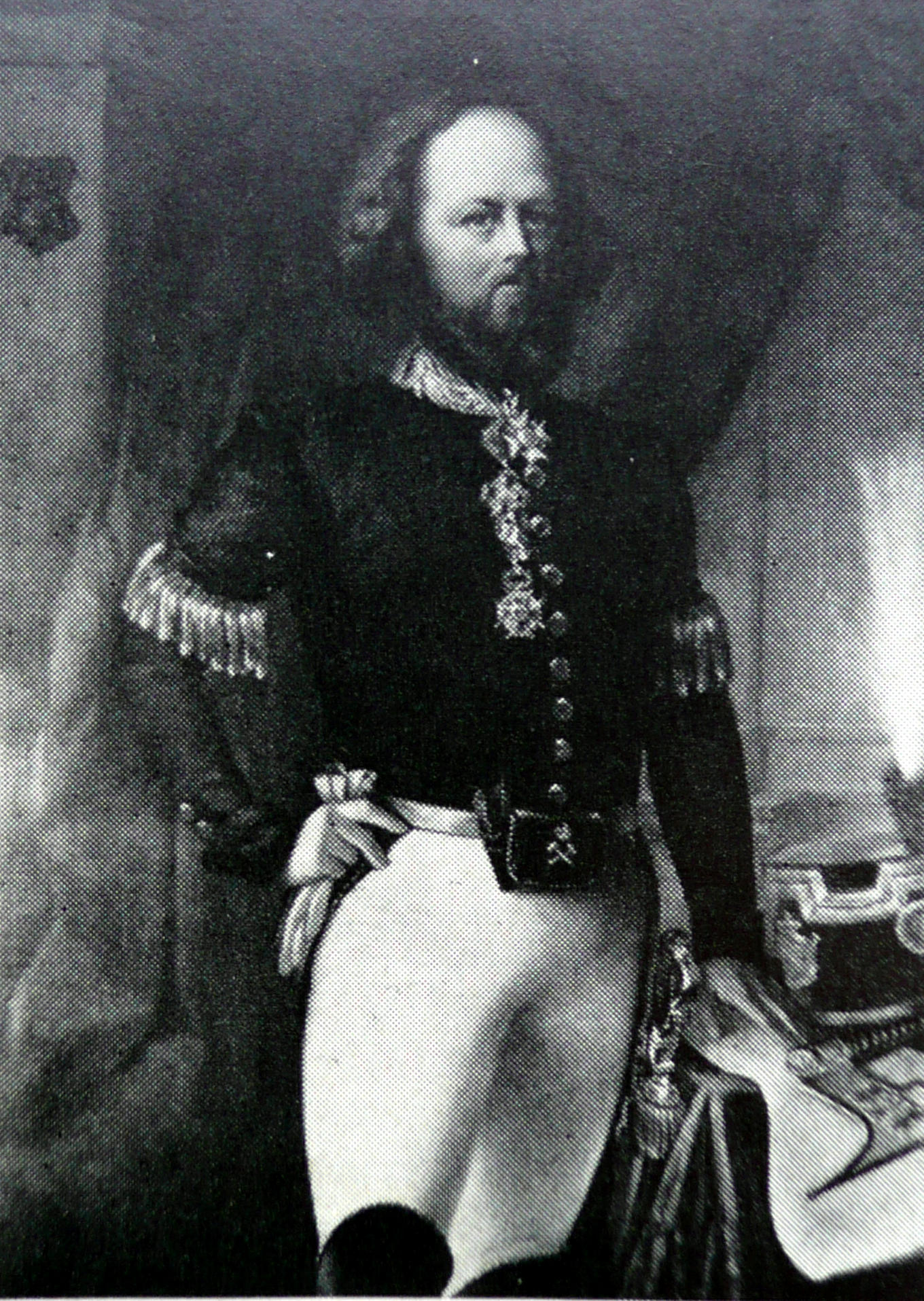 Friedrich Constantin von Beust (1806-1891), famous saxon mineralogist, geologist and jurist; from 1851 to 1869 last director (Oberberghauptmann) of the saxon mining office.